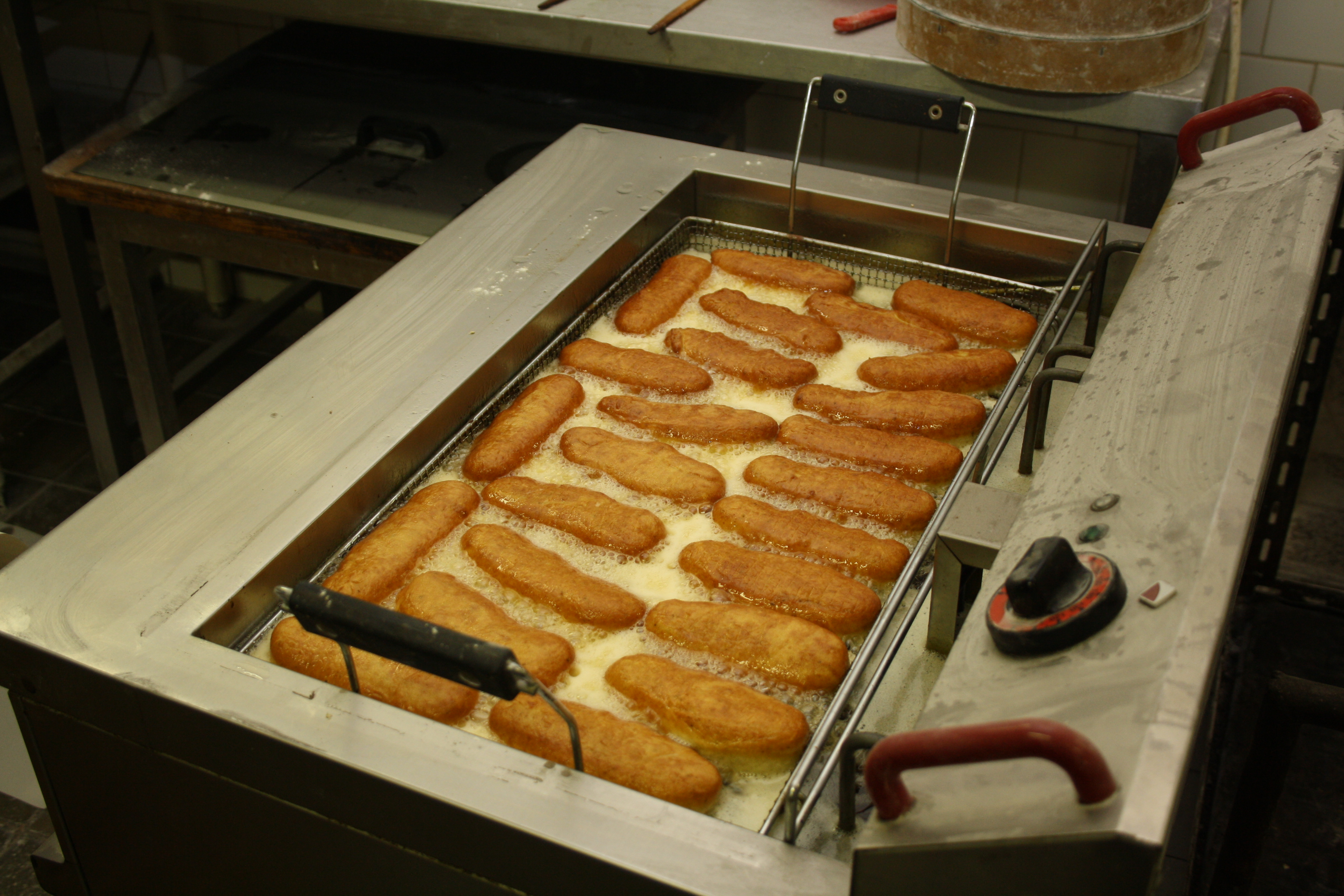 Production process of czech "bramboráček", bread made of potato dough. This photograph was taken with a DSLR from WMCZ's Camera grant. This picture was taken and/or got within the scope of the 'Acquiring scientific and specialized pictures' grant.